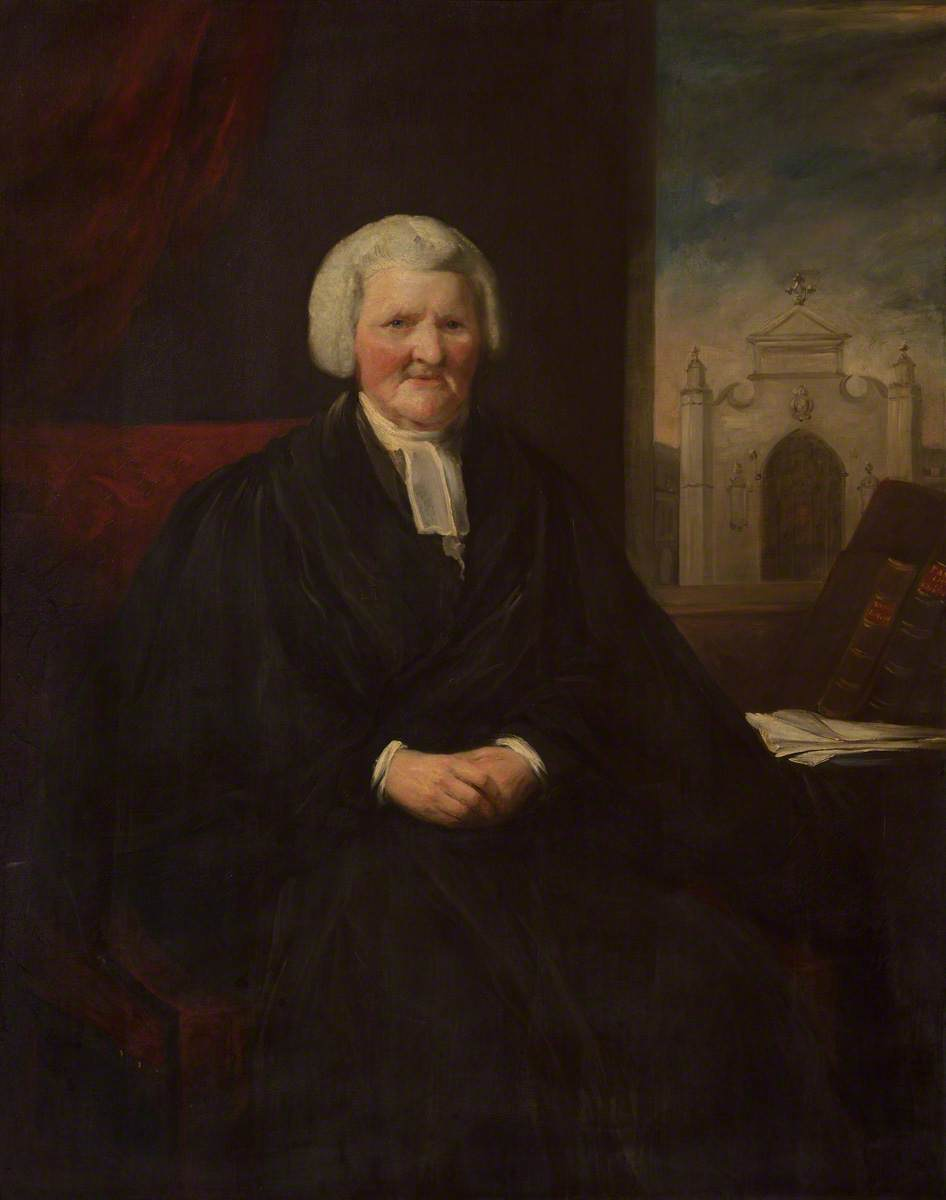 Francis Barnes (1744-1838), Master of Peterhouse, Cambridge